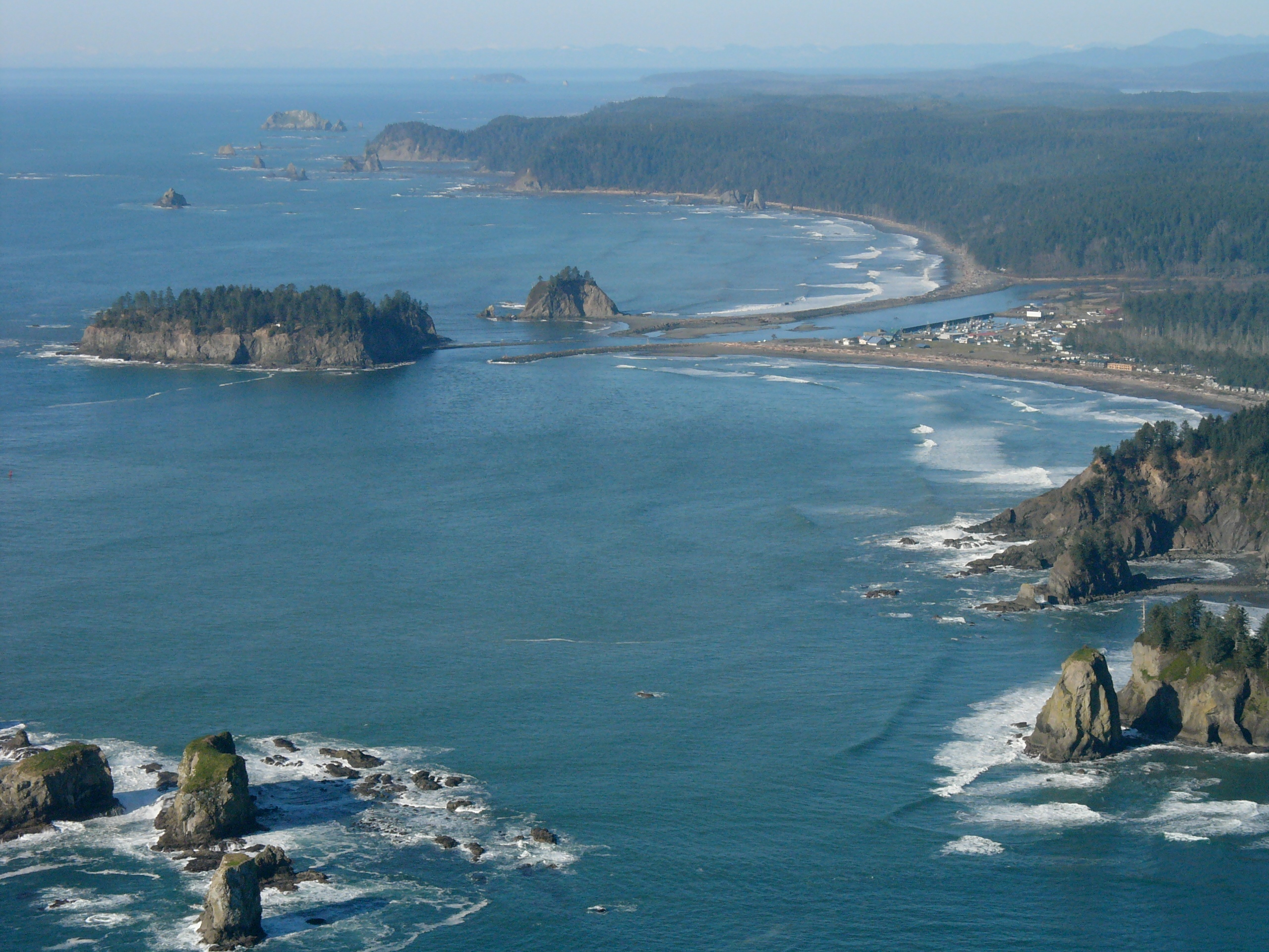 Mouth of Quillayute River at La Push, Washington